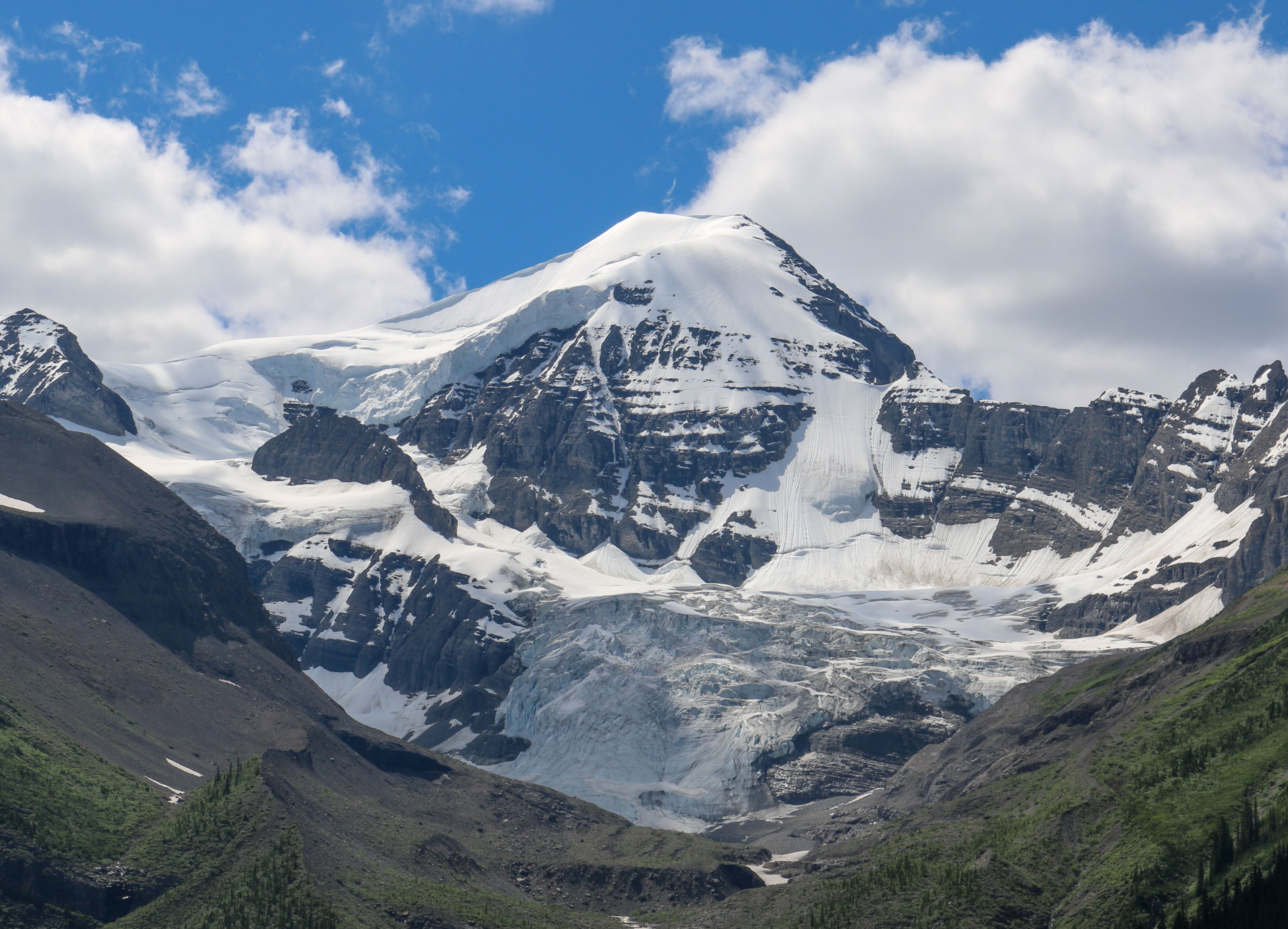 A glacer on the Queen Elisabeth Ranges along the shore of Malign e Lake